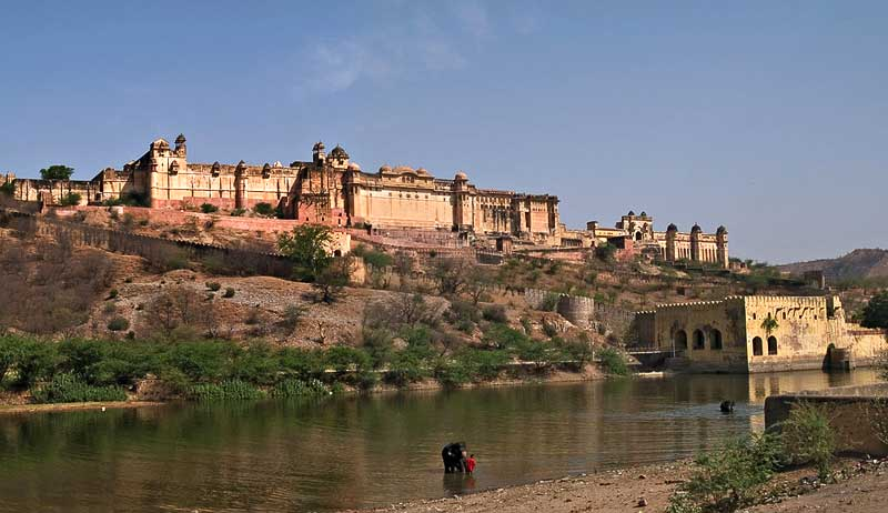 The palace complex at Amber own photo, may 21, 2005 photo: nomo/michael hoefner